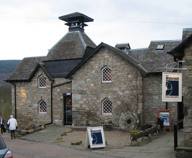 Old watermill building, Aberfeldy. The former watermill is now a shop, cafe and gallery. Some of the old machinery is visible inside, and the wheel itself is still in place.